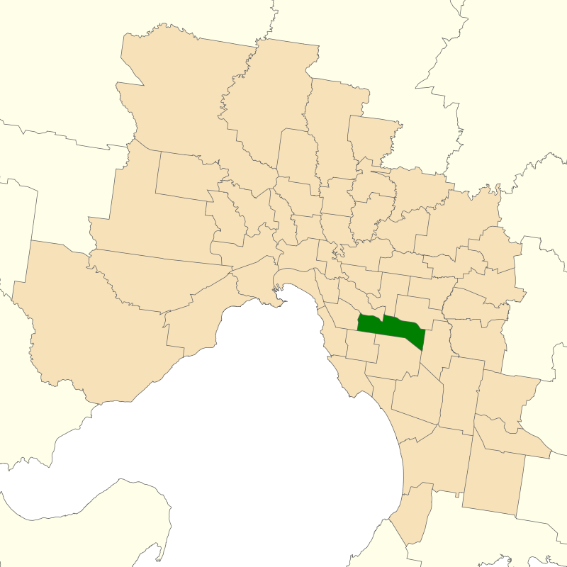 Location of the Victorian electoral district of Oakleigh (dark green) in the Greater Melbourne area.